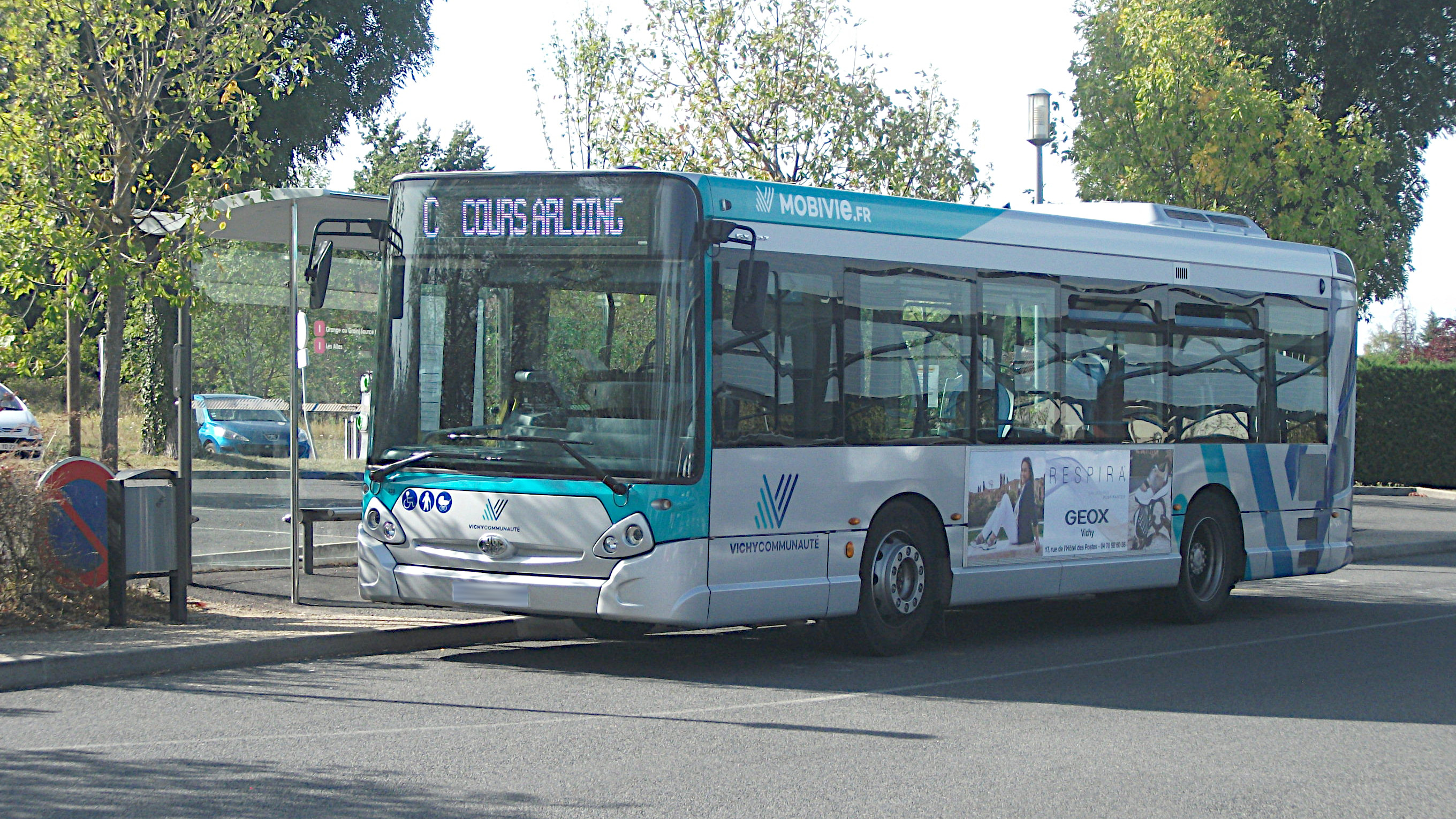 MobiVie bus line C at Stade Aquatique bus station, in Bellerive-sur-Allier, Allier, Auvergne-Rhône-Alpes, France. [19129]